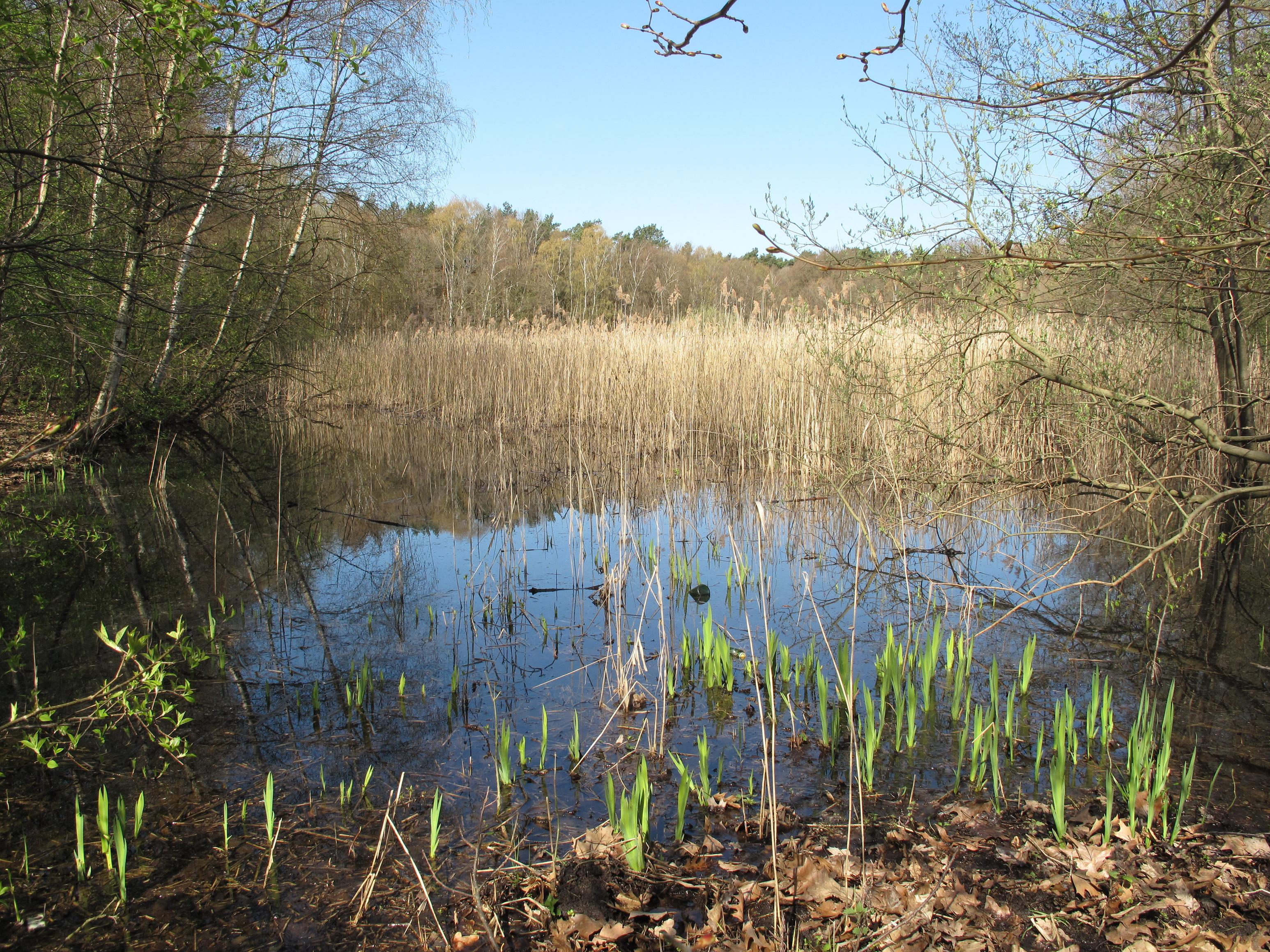 Bauernteich (german for: farmerspond) in Stücken. Stücken is a part of Michendorf in the district Potsdam-Mittelmark, state Brandenburg, Germany. The village is situated in the Nuthe-Nieplitz Nature Park.